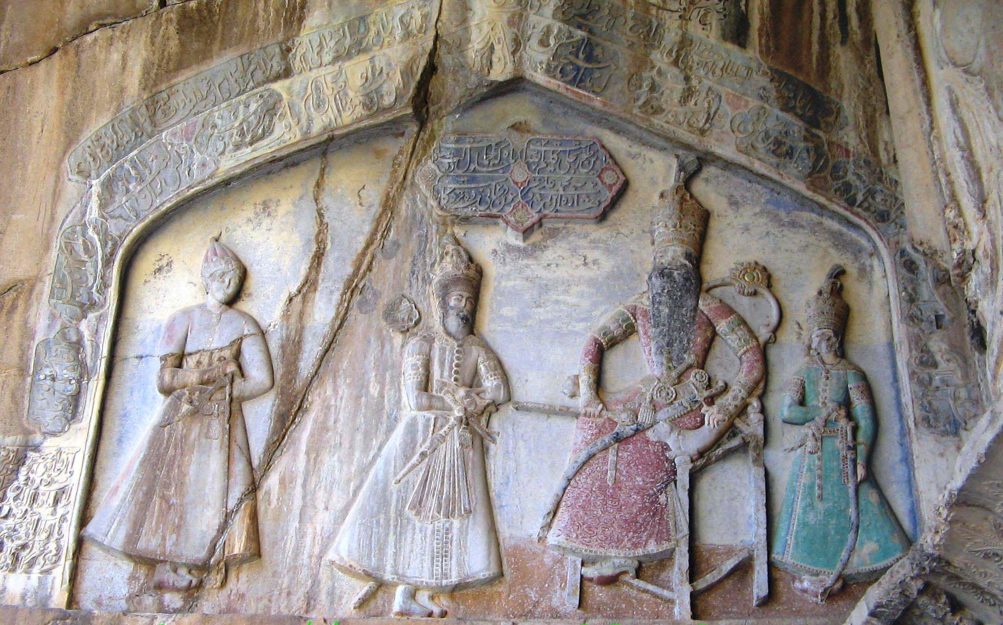 FathAli shah-taqe bostan-Dowlatshah